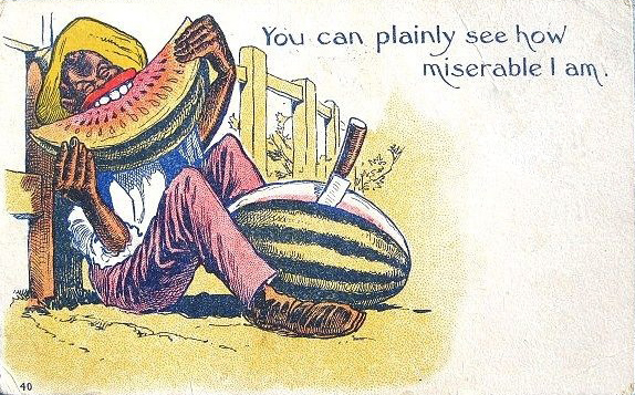 1911 Coon card depicting a black man eating watermelon. Artist(s) and postcard manufacturer(s) unidentified.